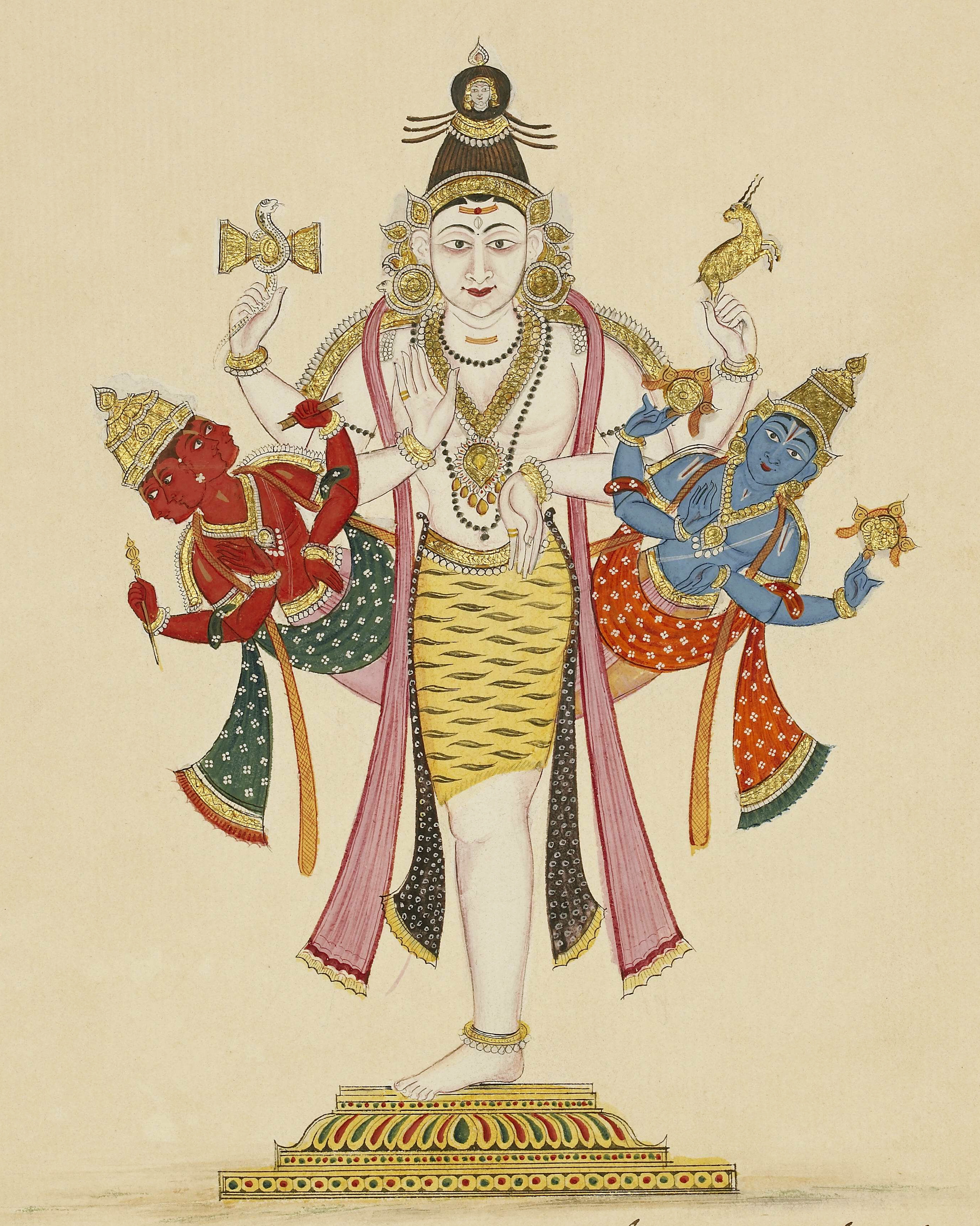 "Dressed in a tiger skin, he is depicted one footed (ekapada), and four-armed (caturbhuja). He carries in his upper right hand the damaru, in his upper left hand the mriga, his lower right hand is in abhaya and his lower left in varada mudra. Out of his right hip emerges the four-headed Brahma carrying in his upper right hand a stylus and in his upper left hand a book, while his lower right and left hands are respectively in abhaya and varada mudra. An angavastra is draped on his elbows. From Śiva's left hip appears Viṣṇu with the cakra in his upper right hand and the shankha in his upper left. The lower right and left hands are in abhaya and varada mudra and an angavastra is draped on his elbows. Both deities wear the usual ornaments and a yajnopavita across their chest."